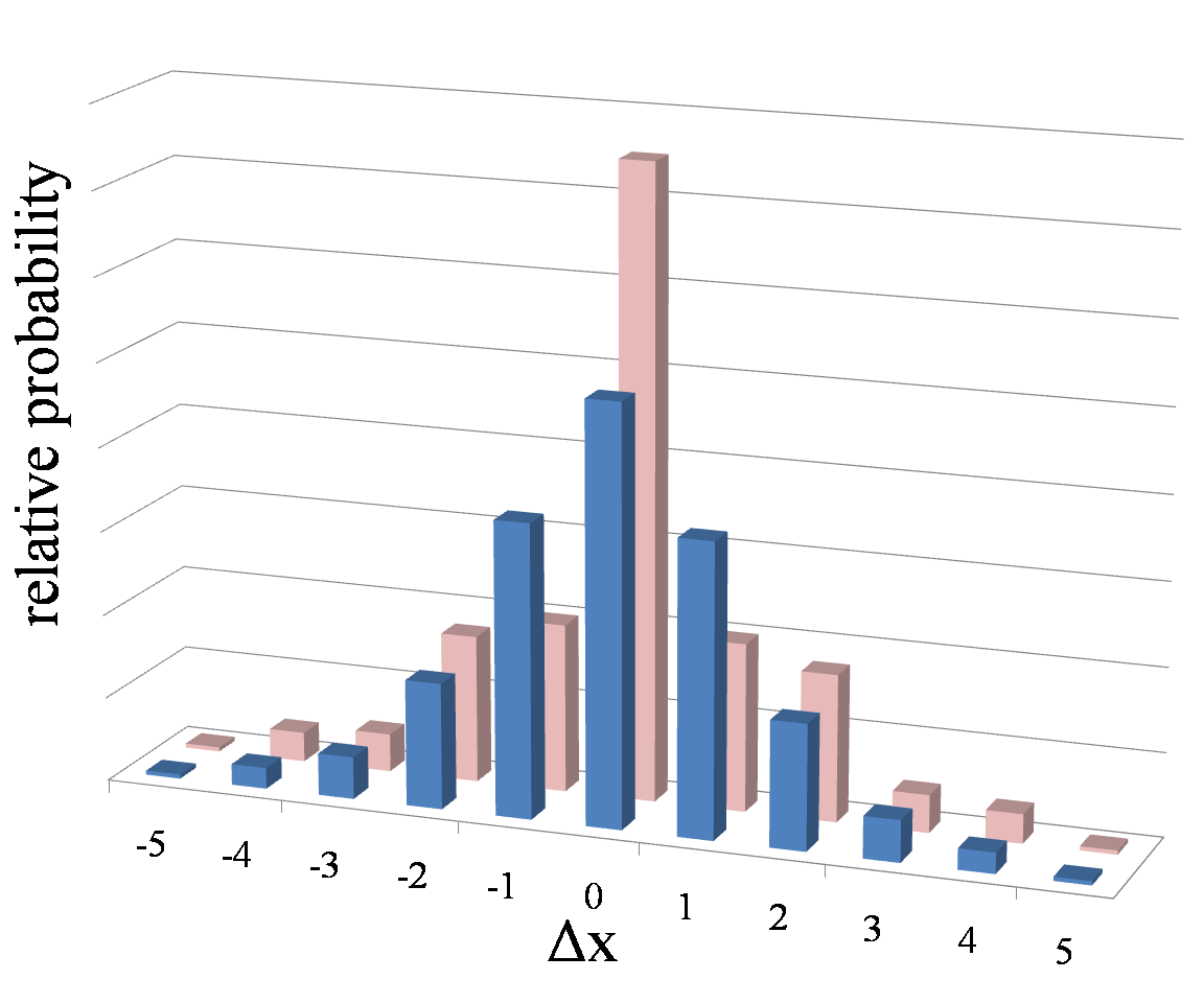 Graph showing relative probability distribution for displacement upon diffusion in one dimension. Blue: single jumps only; Pink: double jumps occur, with ratio of single:double jumps = 1. Statistical analysis of data may yield information regarding diffusion mechanism.